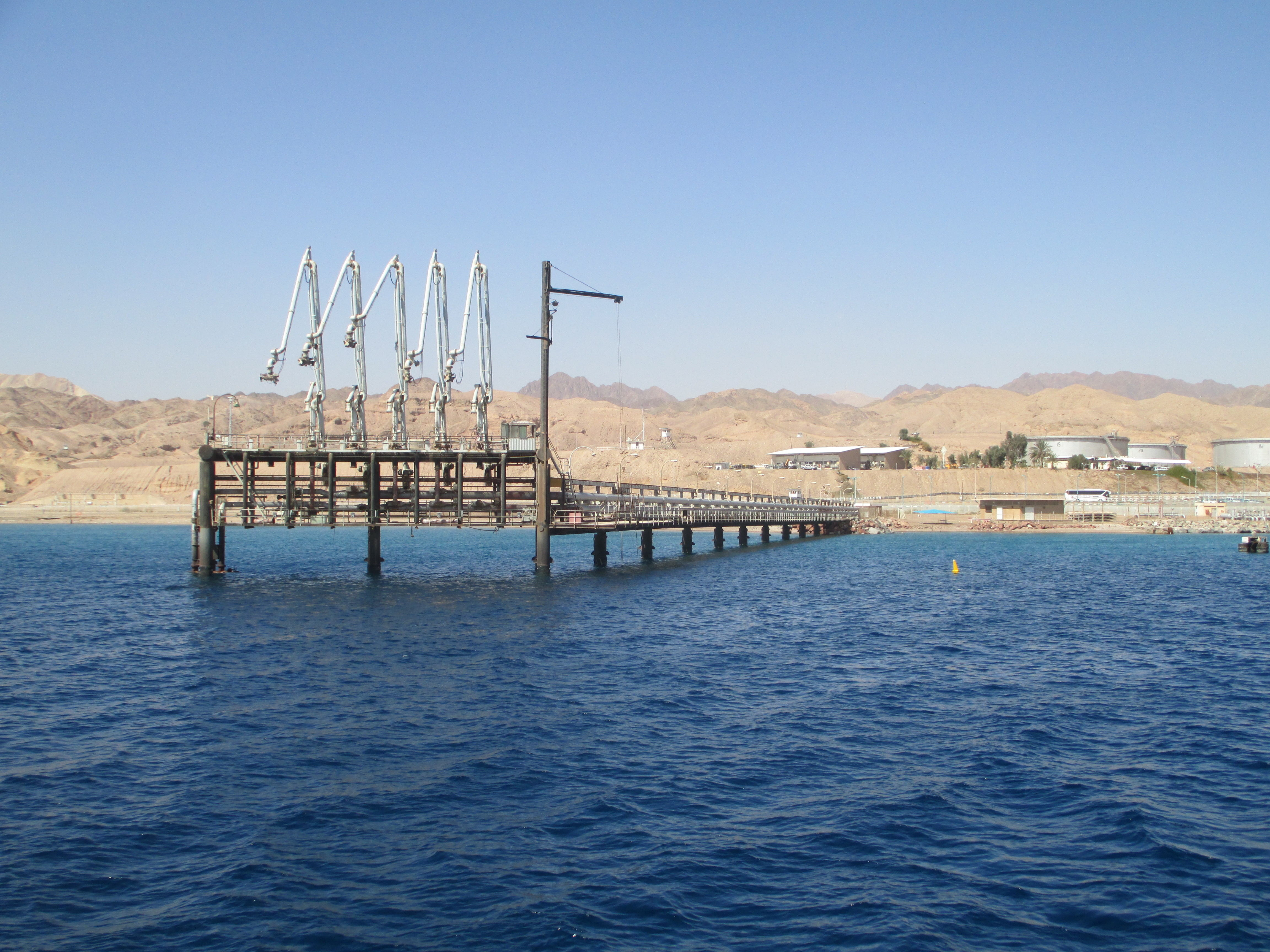 Oil terminal in Eilat